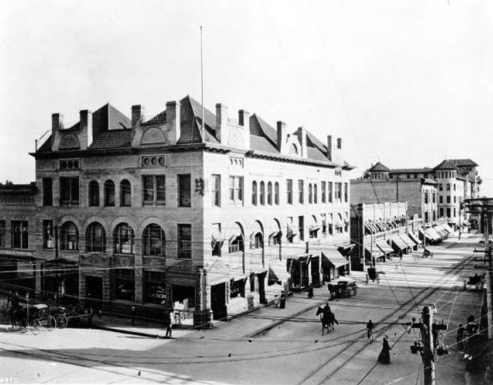 1908 Raymond and Fair Oaks looking south on Fair Oaks, with Pasadena National Bank center.